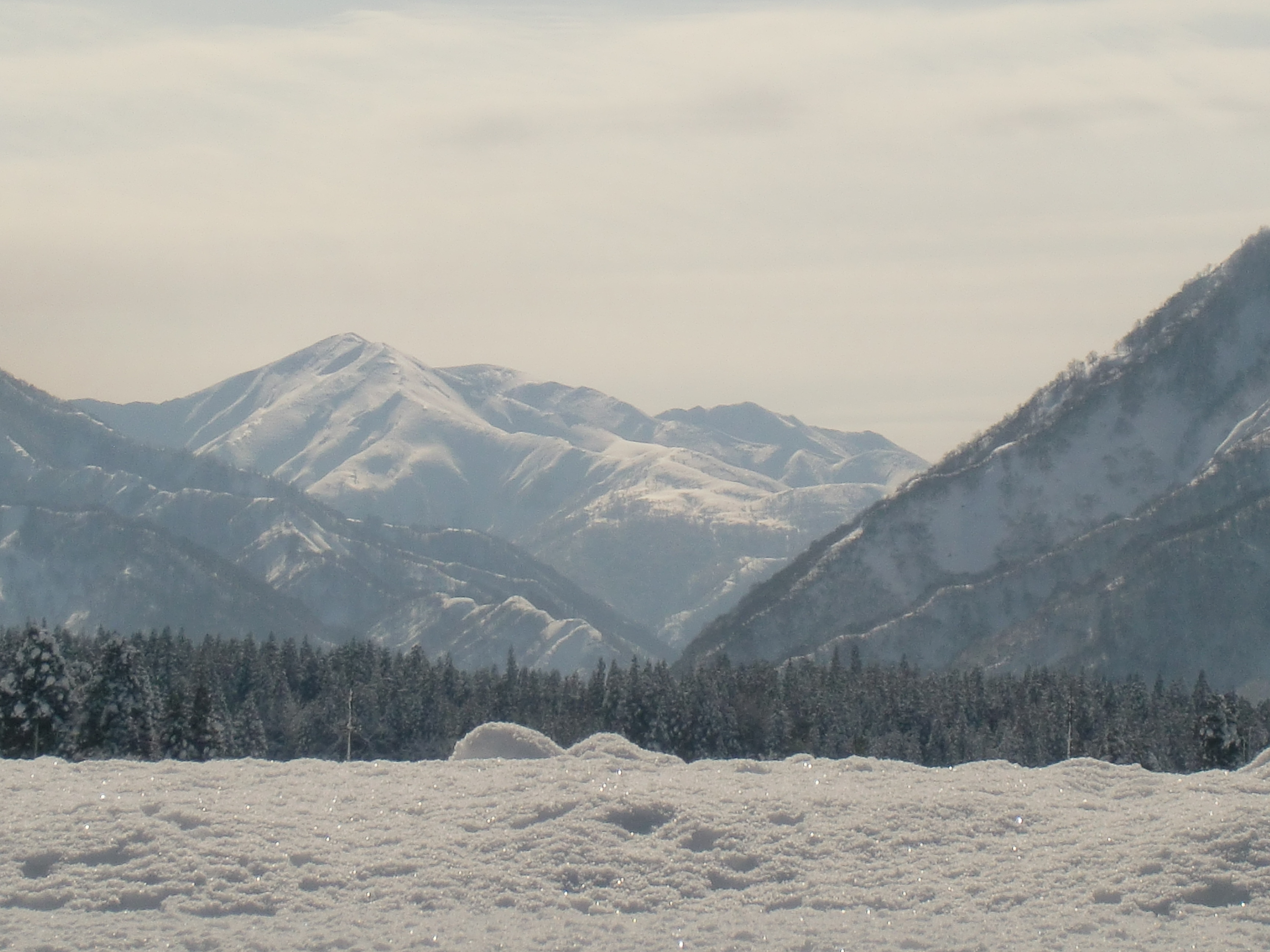 Mount Asahi (Asahidake) on the border between Gunma and Niigata Prefectures, Japan, as seen from the Niigata side